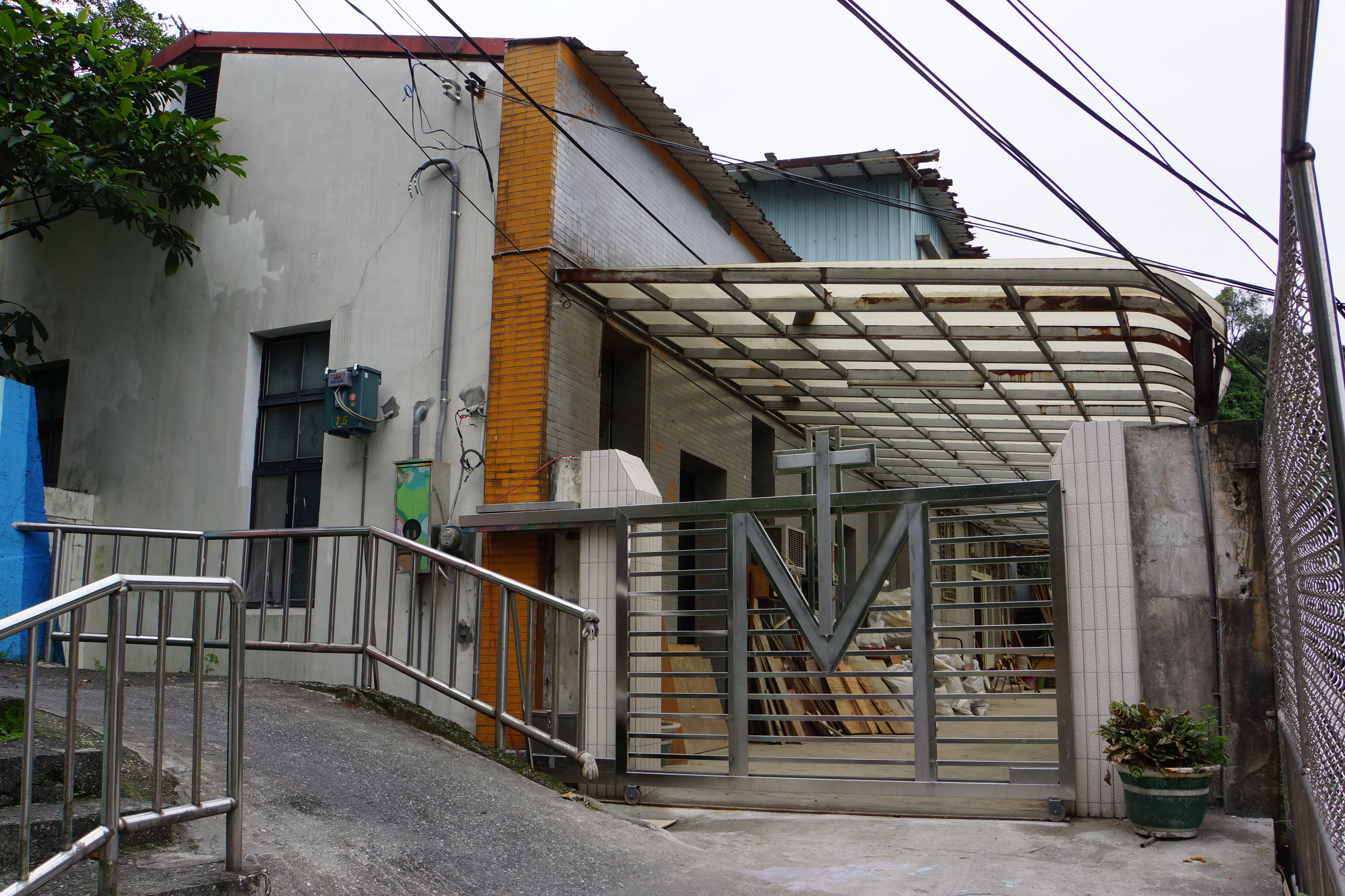 Christ the King Parish Long'an Street, Roman Catholic Archdiocese of Taipei.